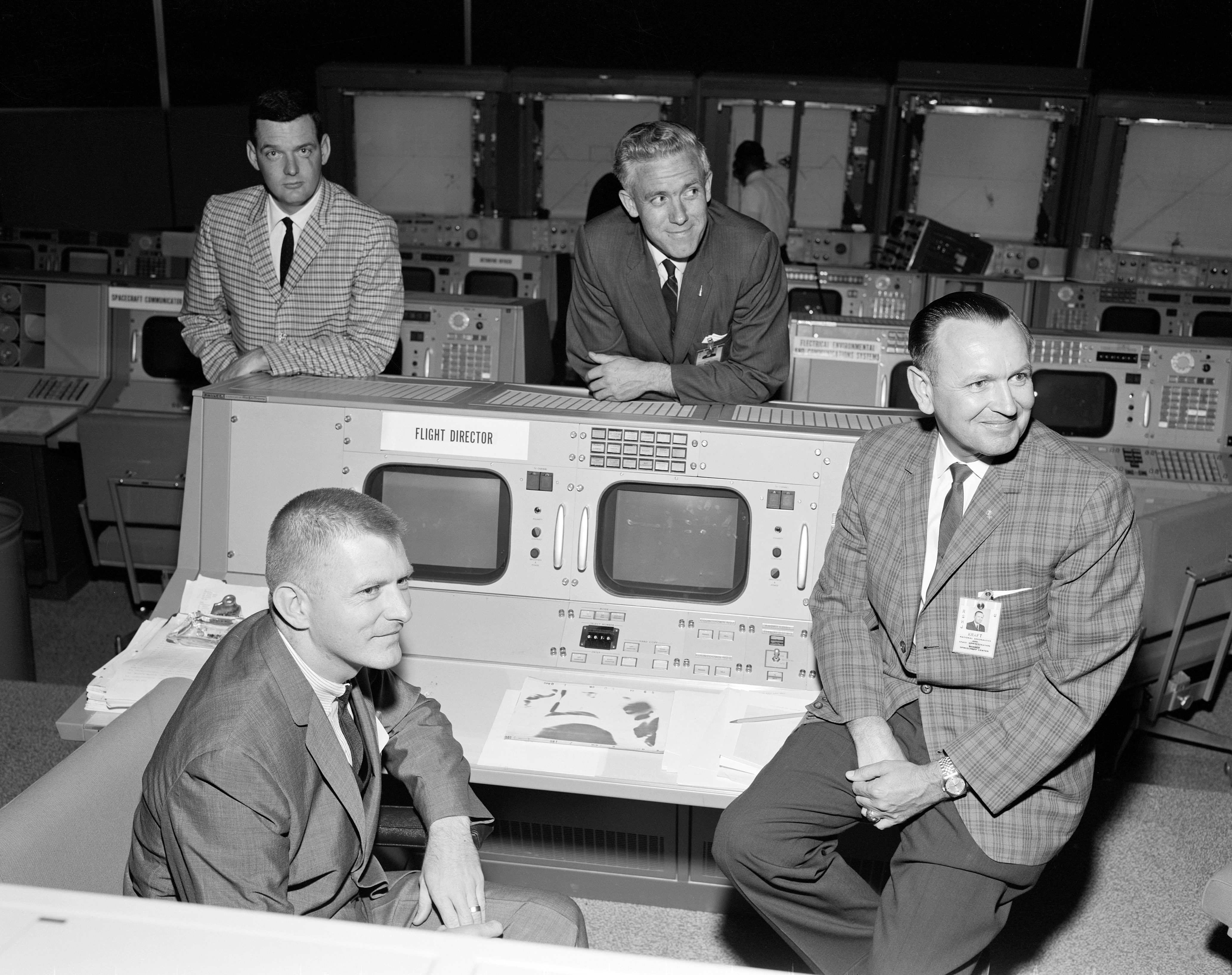 NASA's Flight Directors. Note: Flight Directors for the Gemini-4 mission are shown around the Flight Director's console in the Mission Control Center in Houston. They are, clockwise from bottom left: Eugene Kranz, Flight Director of the White Team; Glynn Lunney, Flight Director at Mission Control Center at Cape Kennedy during the pre-launch countdown and launch phase; John Hodge, Flight Director of the Blue Team; and Chris Kraft, Flight Director of the Red Team. Kraft also served as Mission Director of the Gemini-4 flight.